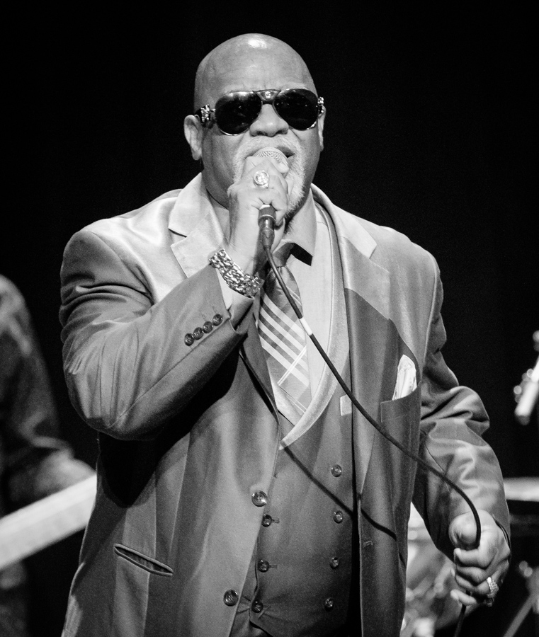 Eric Ricky McKinnie with The Blind Boys of Alabama and guest Knut Reiersrud at Cosmopolite. The concert took place on 06. April 2018 in Oslo. Lineup: Eric “Ricky” McKinnie (vocal), Ben Moore (vocal), Paul Beasley (vocal), Jimmy Carter (vocal), Joey Williams (guitar), Austin Moore (drums), Ray Ladson (bass guitar), Peter Levin (keyboard) and Knut Reiersrud (guitar).